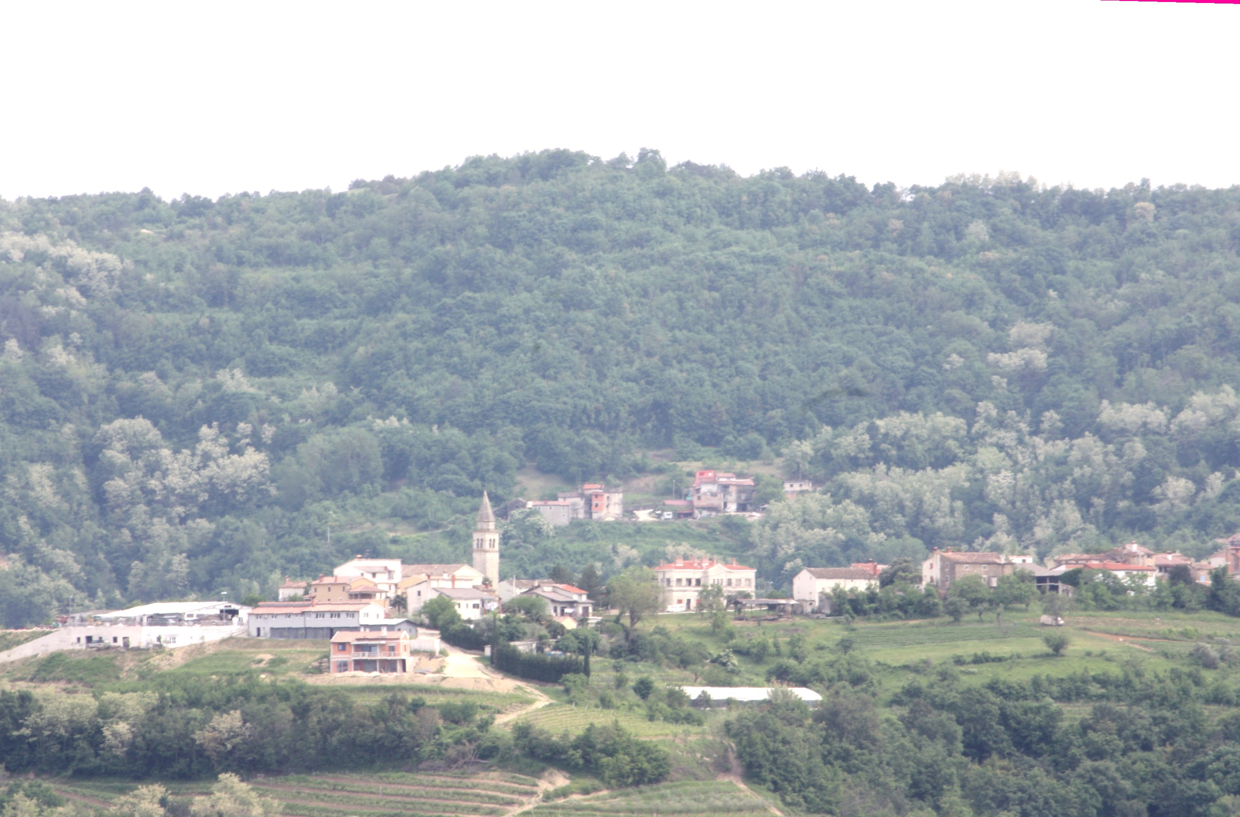 Motovun, view to Kaldir